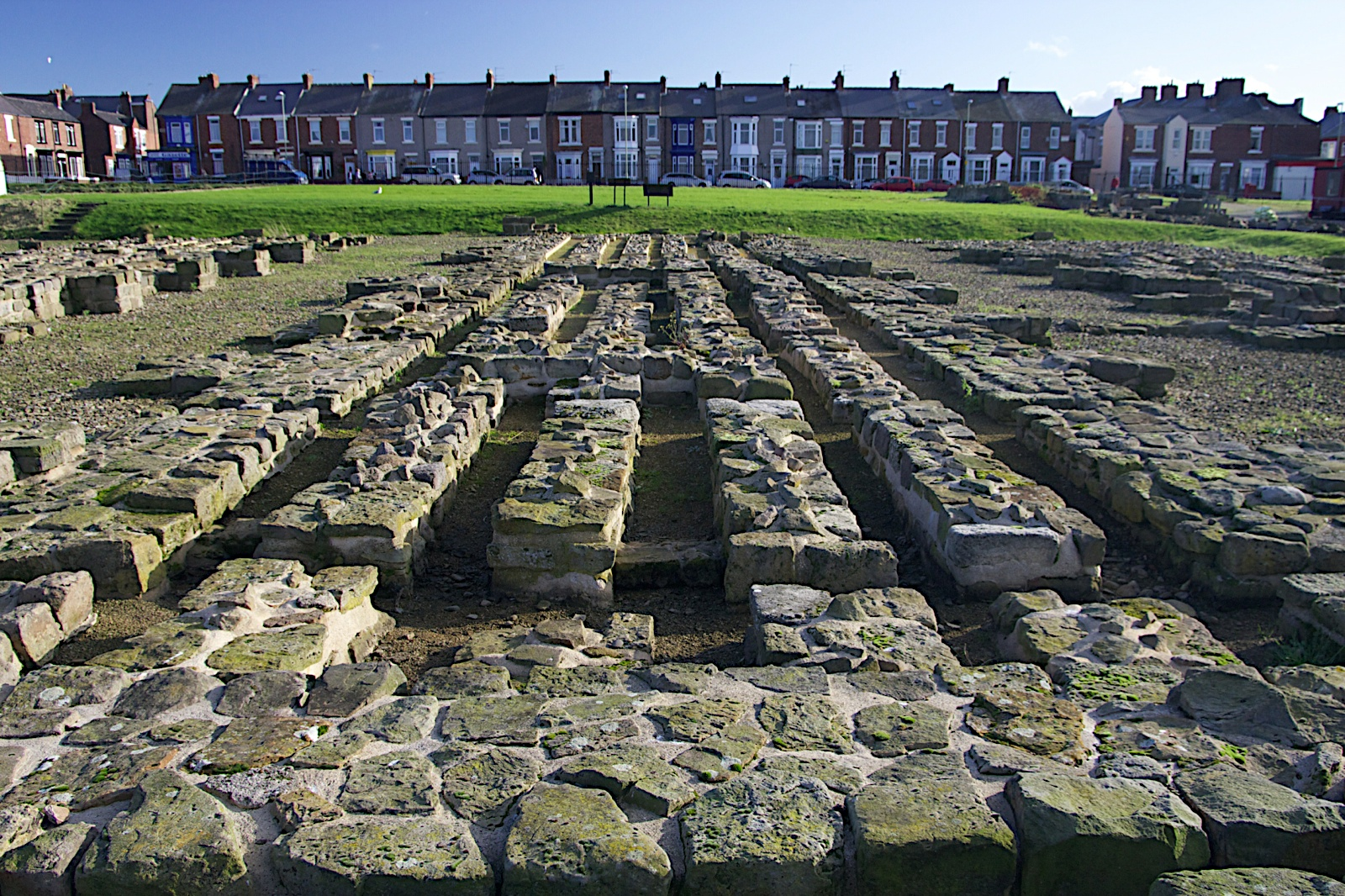 Granary, South Shields